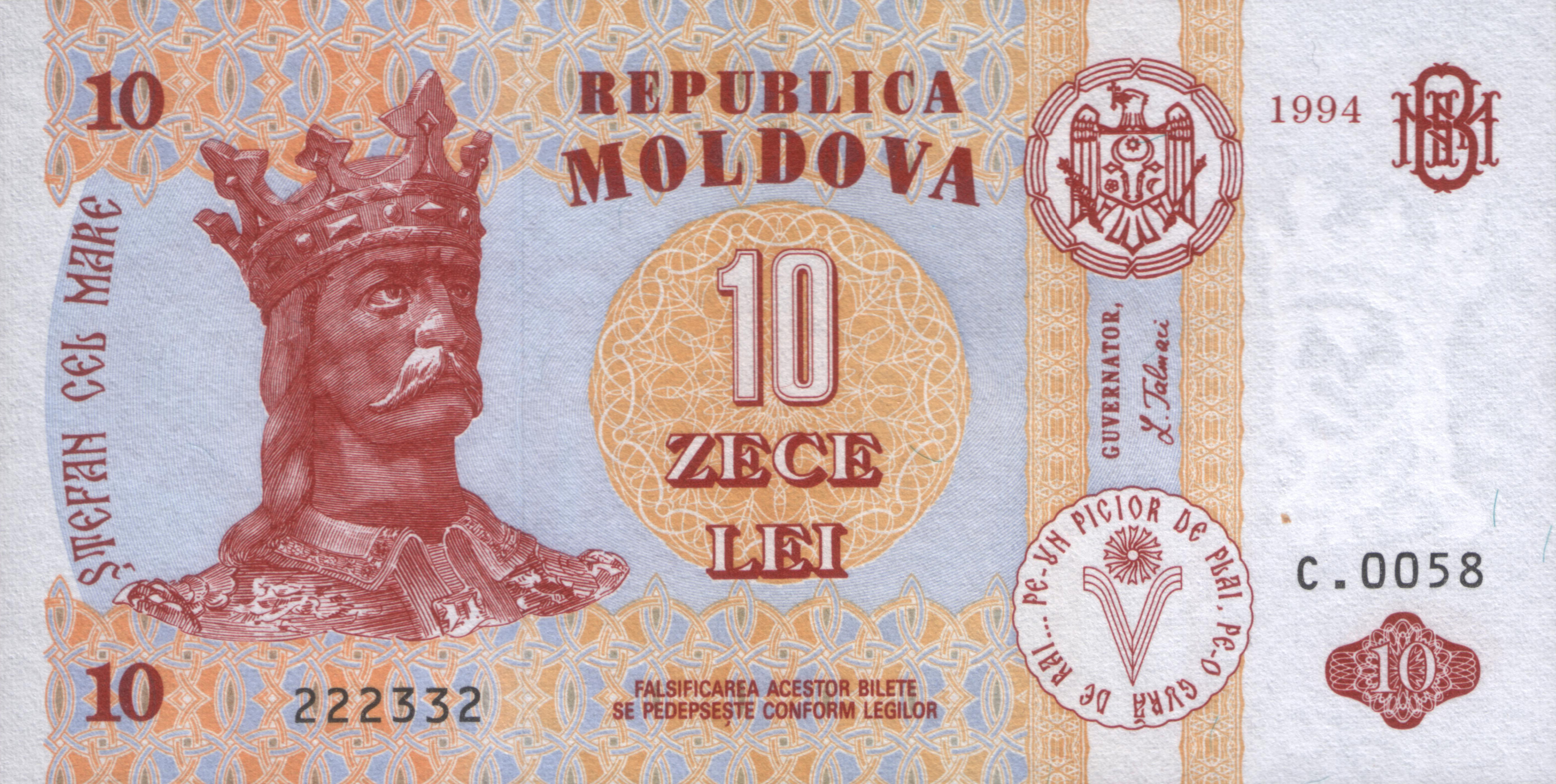 10 lei (1994)